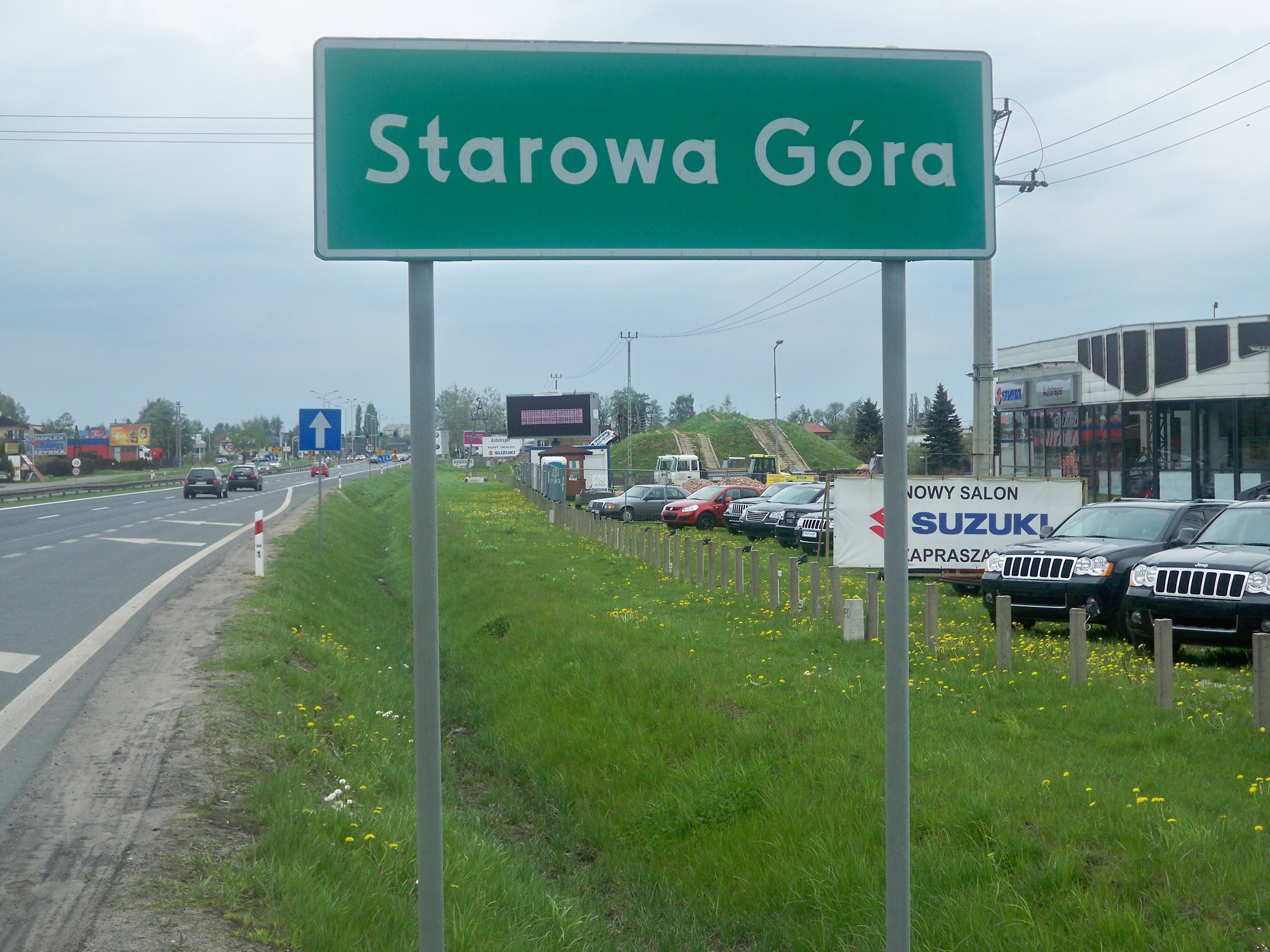 My photo